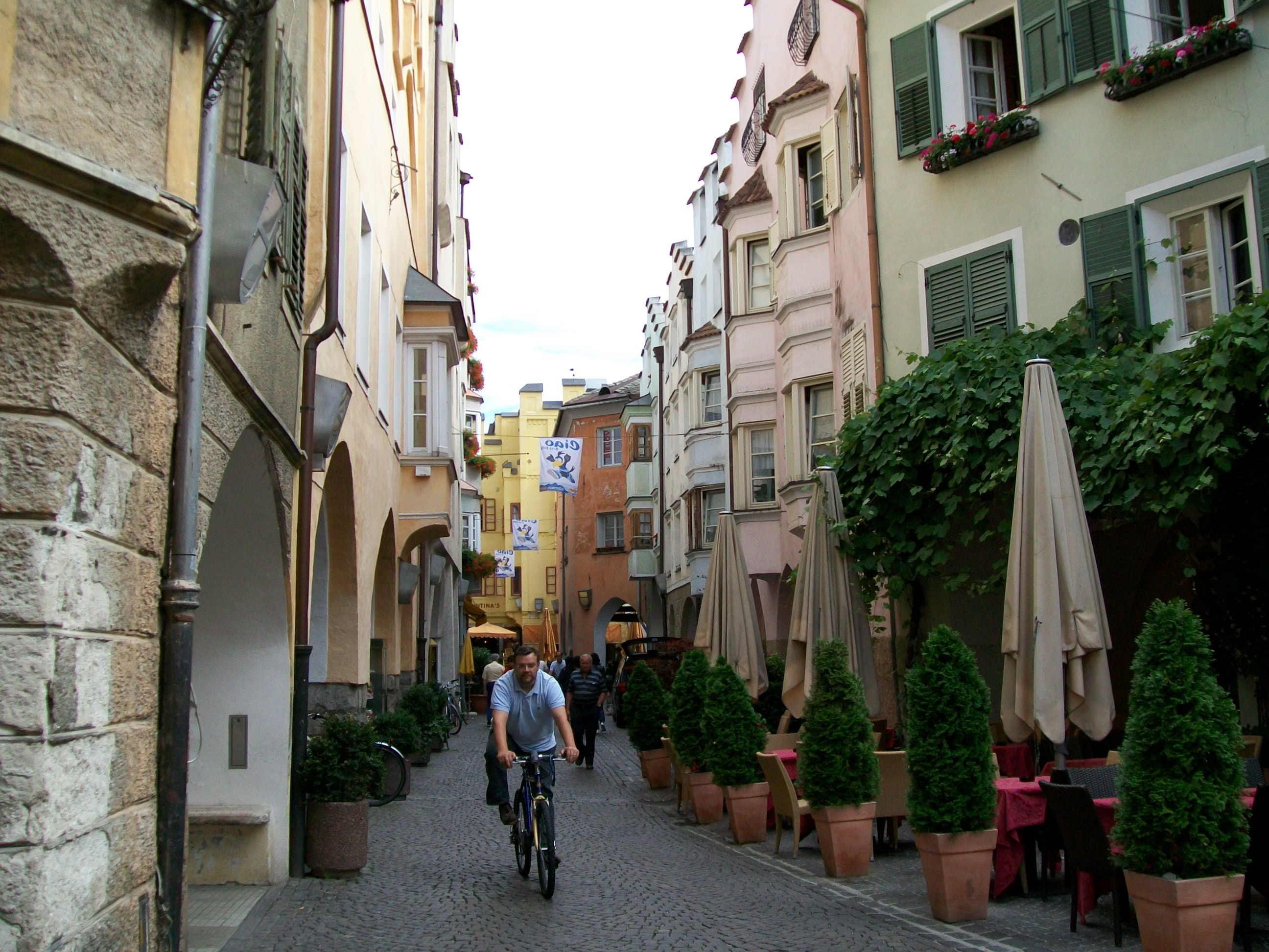 Picturesque street in Brixen